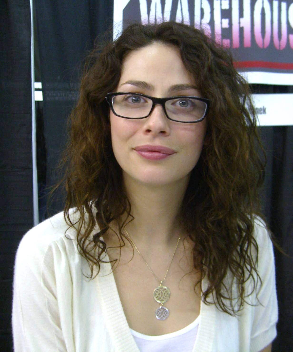 Actress Joanne Kelly at the Big Apple Convention in Manhattan. Photographed by Luigi Novi. This photo may only be used if the photographer is properly credited. (See Licensing information below.)